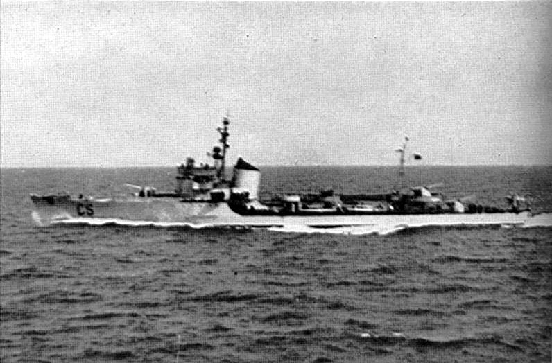 Official photo of Italian Regia Marina torpedo boat Cassiopea, circa 1939.